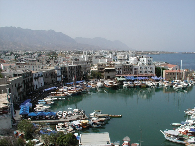 a picture of kyrenia harbour